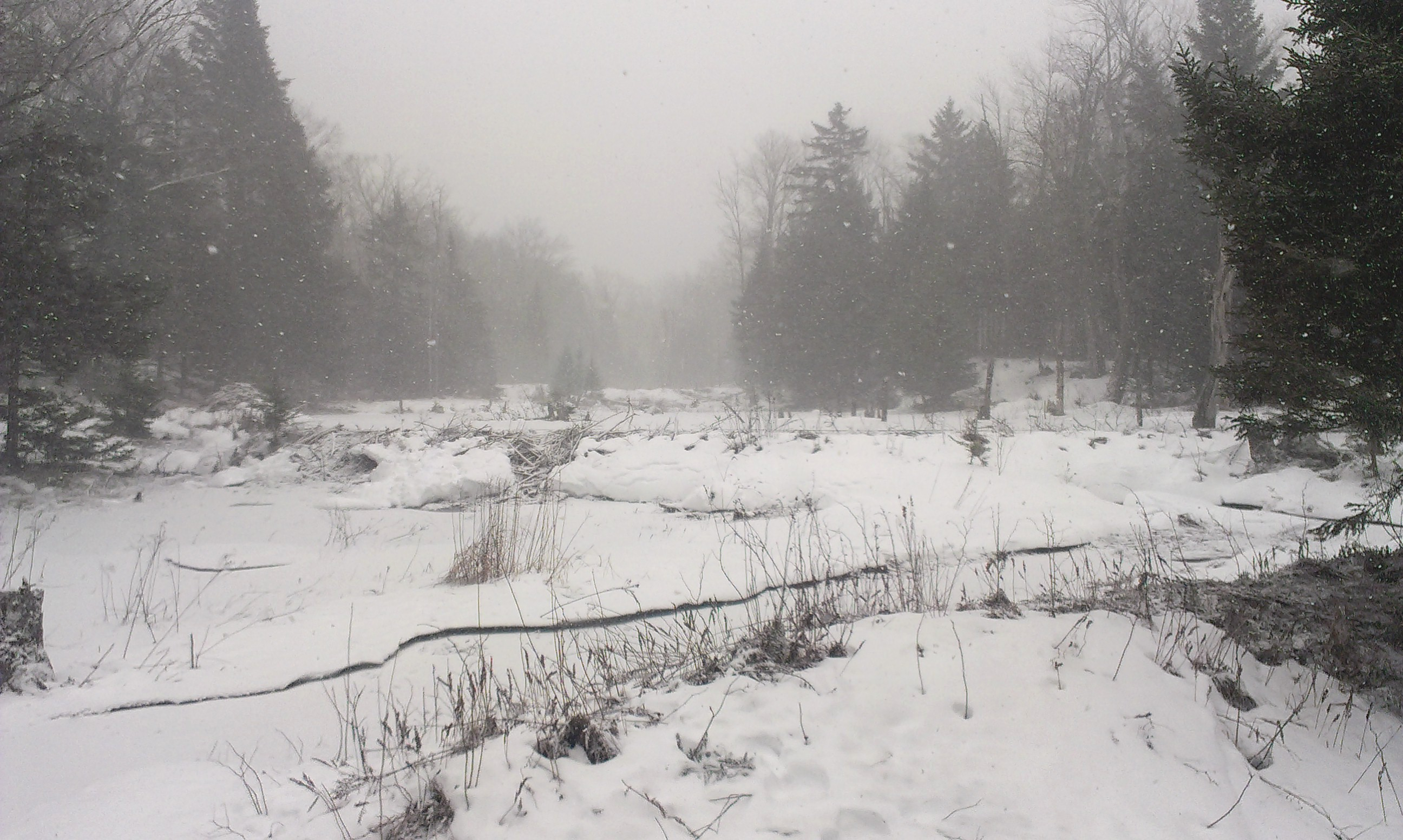 beaver dam in a cold winter day -18 Celsius